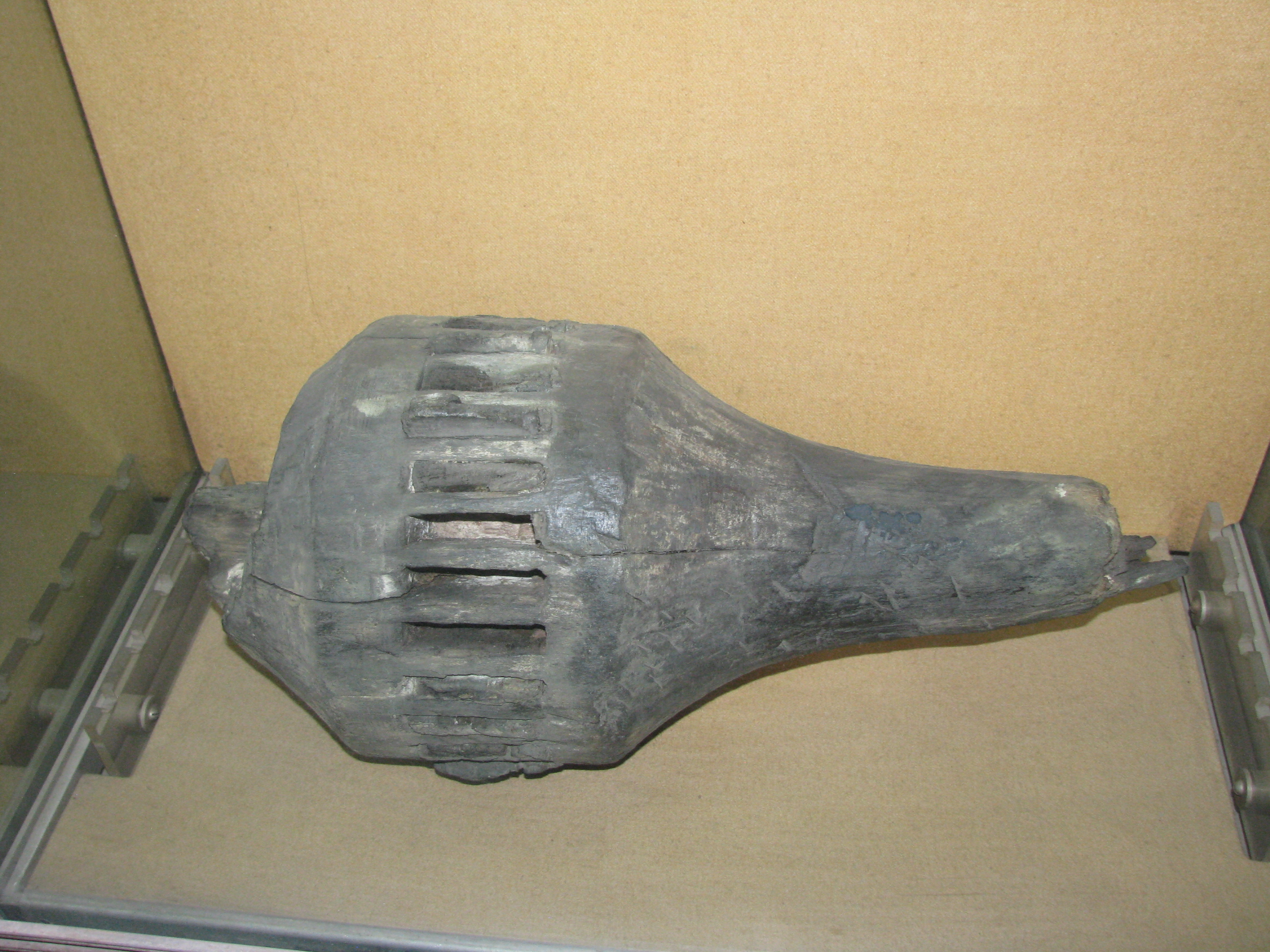 Roman Wooden Tools Used for Salt Mining, Ocna Mures (Alba Iulia National Museum of the Union, 2011)